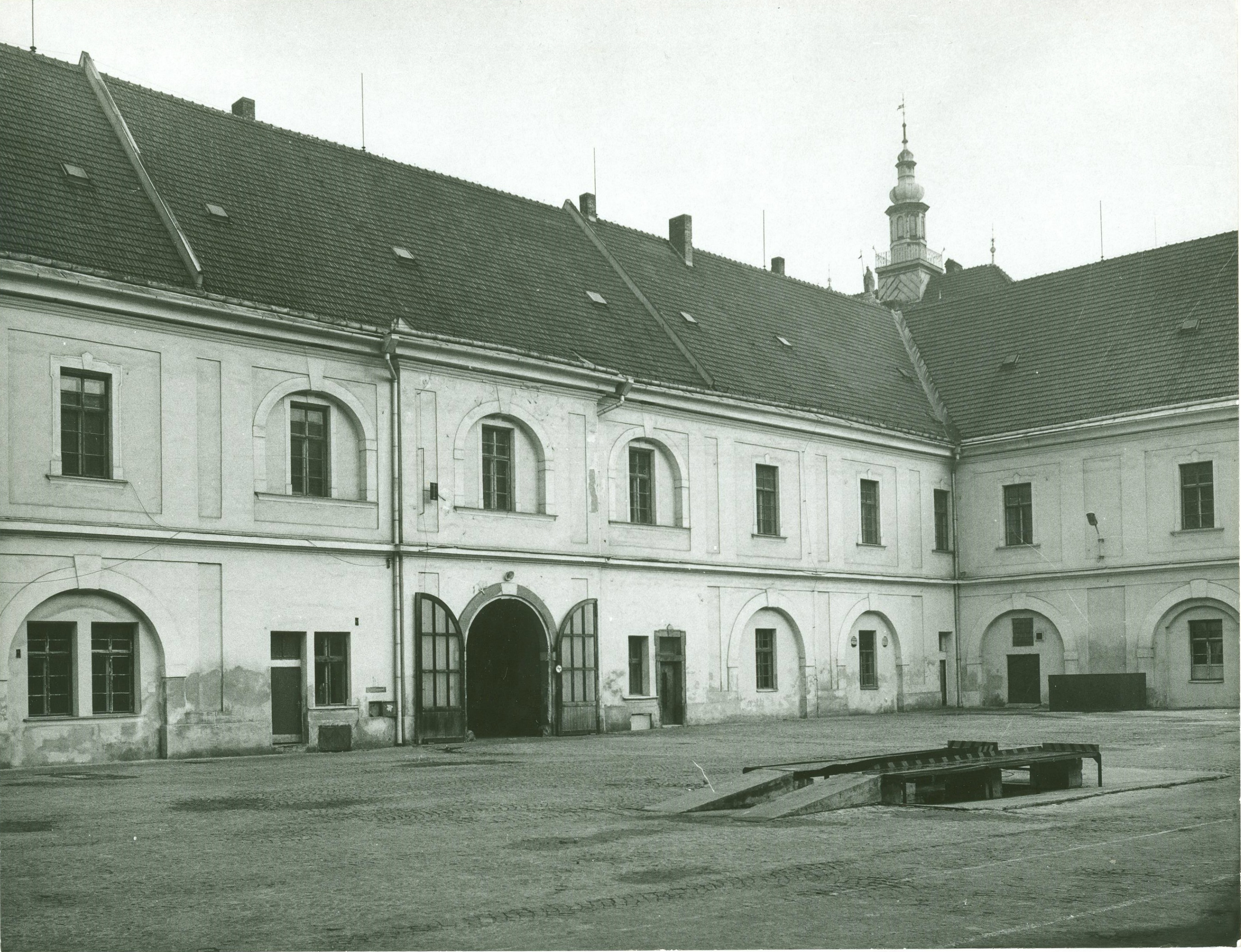 The former armoury, later barracks– today Library of Palacký University in Olomouc, Czech Republic.